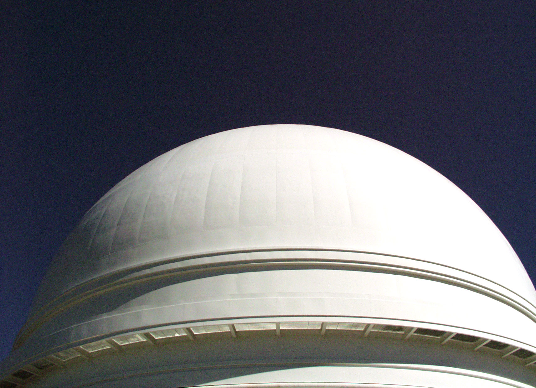 Palomar Observatory Dome High-Resolution Photo